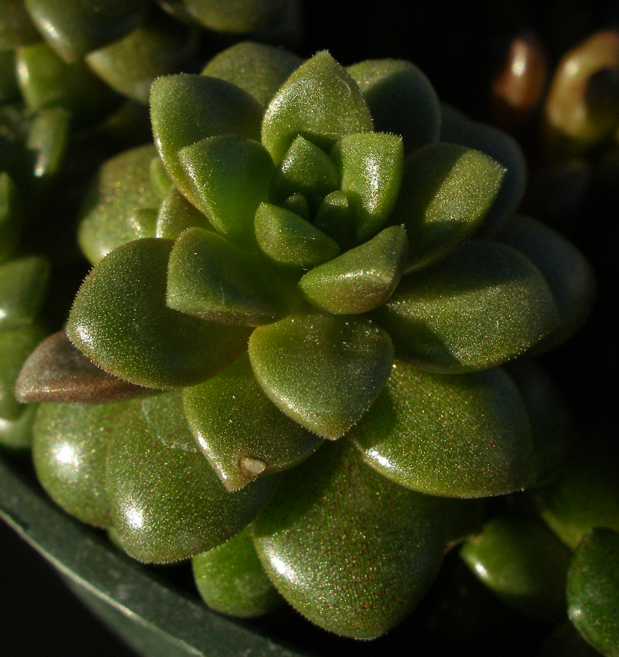 × Cremnosedum 'Little Gem' leaves